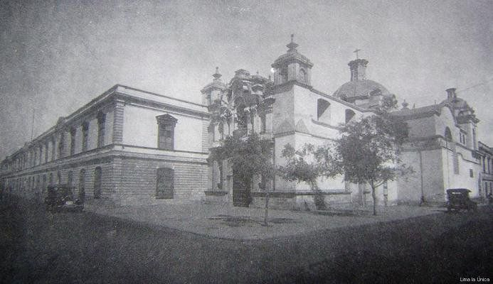 The Casona de San Marcos and the Plazuela de San Marcos, in 1925, in Lima, Lima Region, Peru.